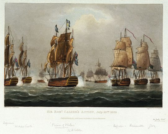 Sir Robt Calder's Action, July 22nd 1805. Defiance, Windsor Castle, Prince of Wales, Repulse, Raisonable, and Glory. Ferrol 23 July 1805; aquatint, coloured